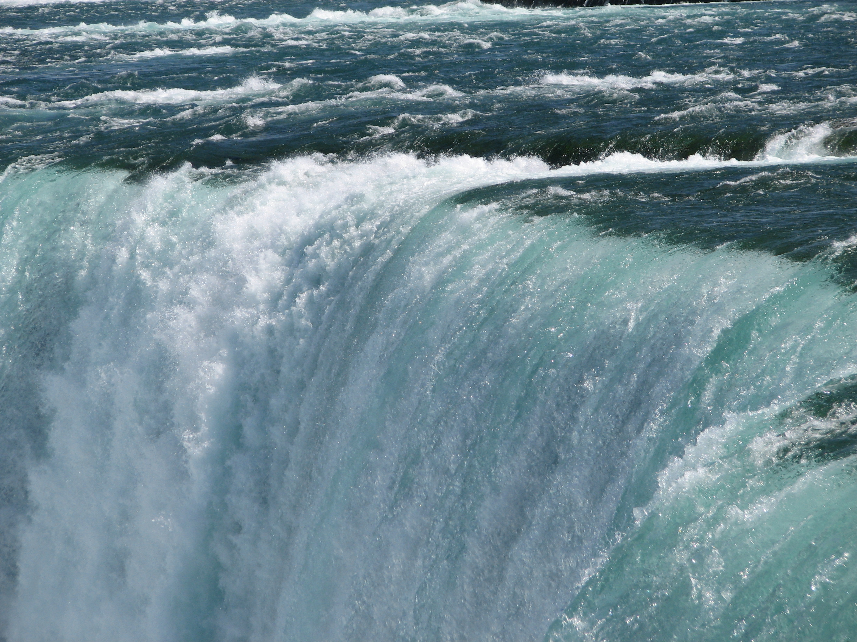 A closeup view of water pouring down Horseshoe Falls, aka Canadian Falls, located at Niagra Falls. This image was taken from the Canadian side of the river in Niagara Falls, Ontario.